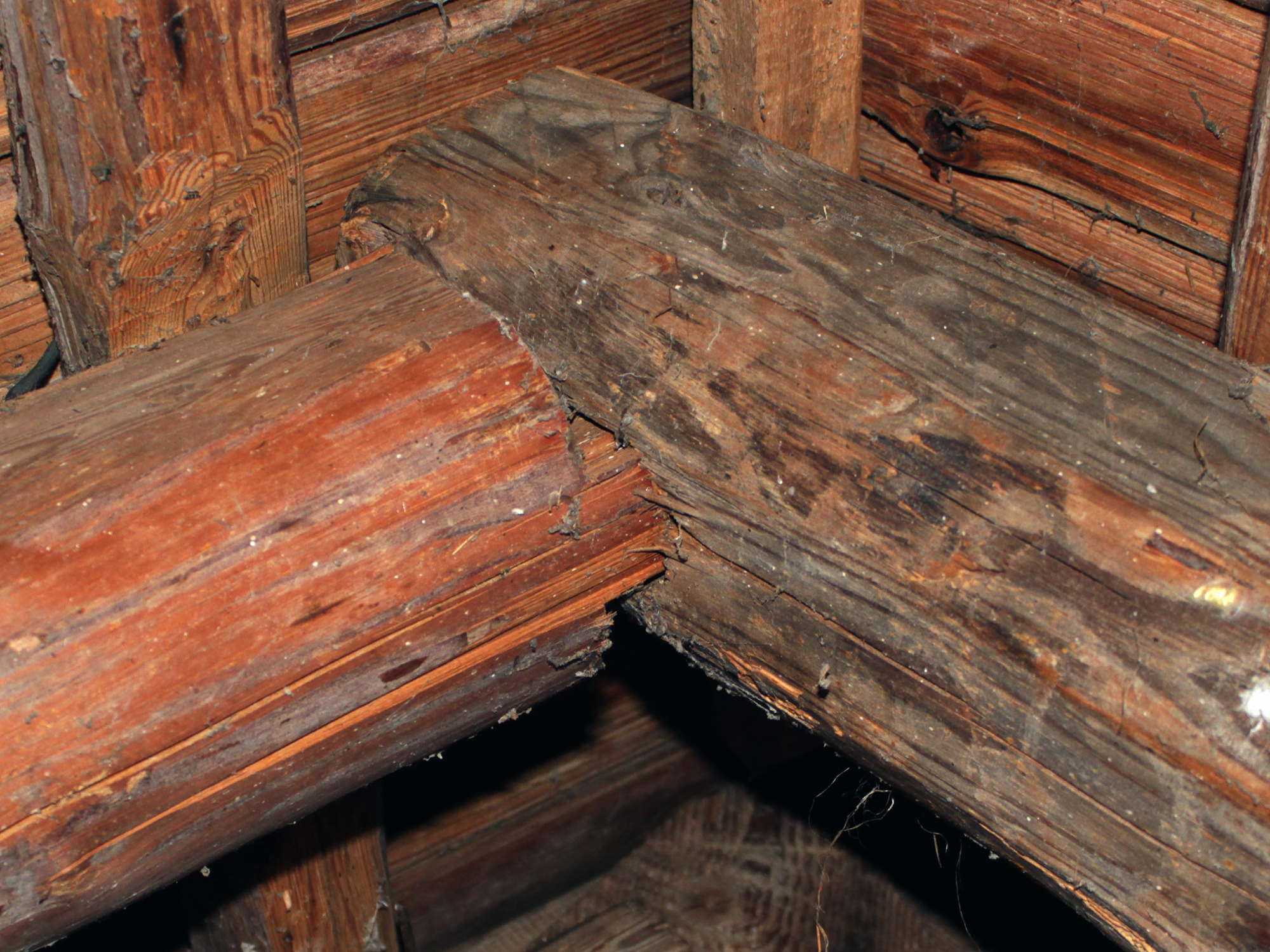 Two timber framed rafters joined with a bridal joint in Belarus, Russia.